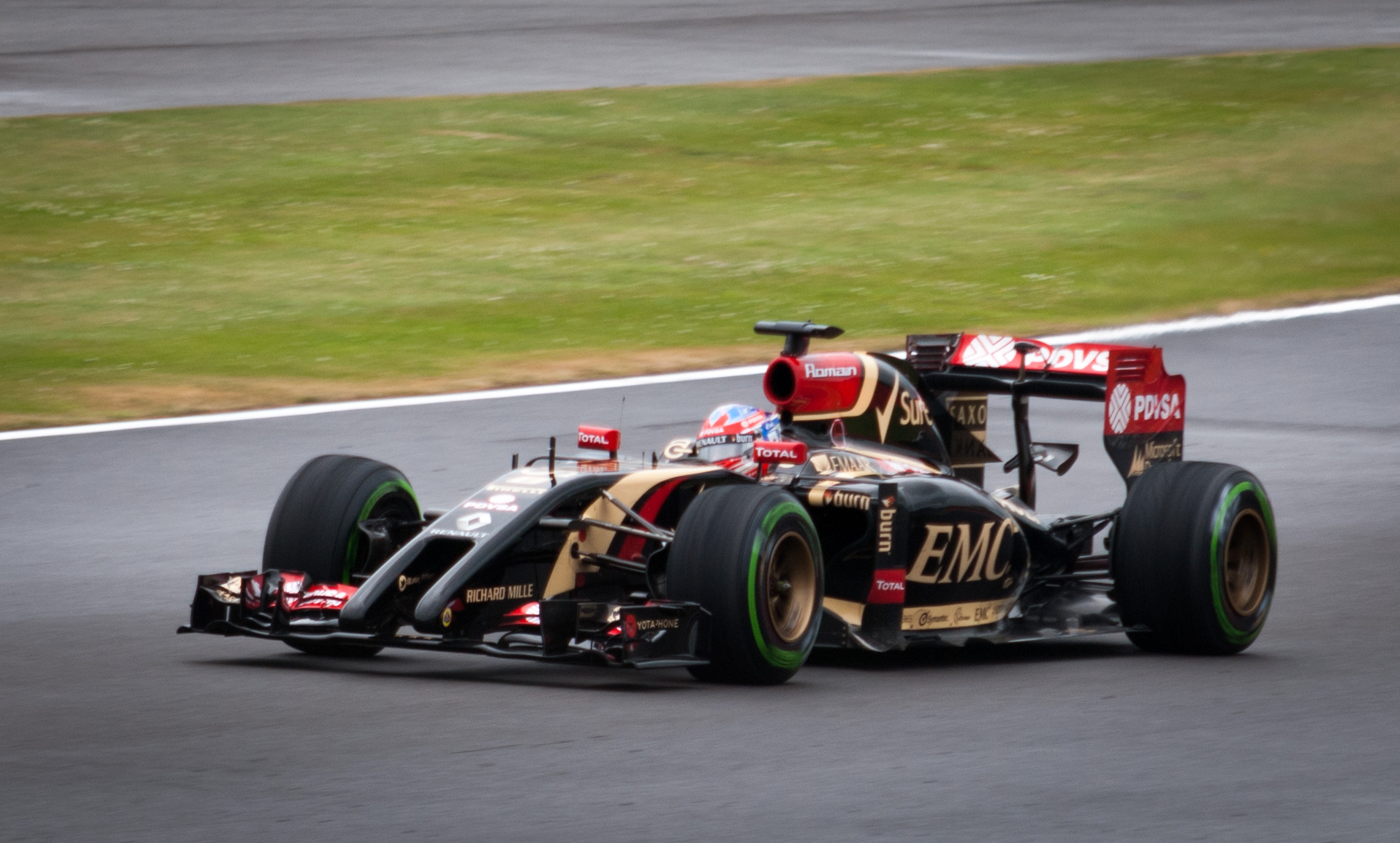 Romain Grosjean on the Lotus E22 at 2014 British Grand Prix